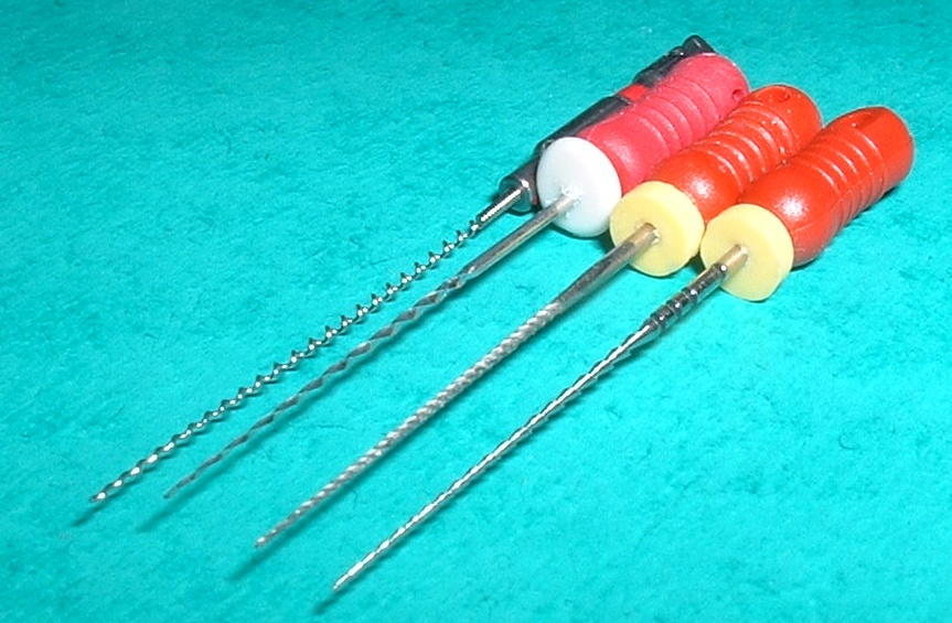 Miscellaneous endodontic instruments. From left: Lentulo spiral, reamer, K-file and H-file. ISO size 25. Taken with FujiFilm 2600Zoom.